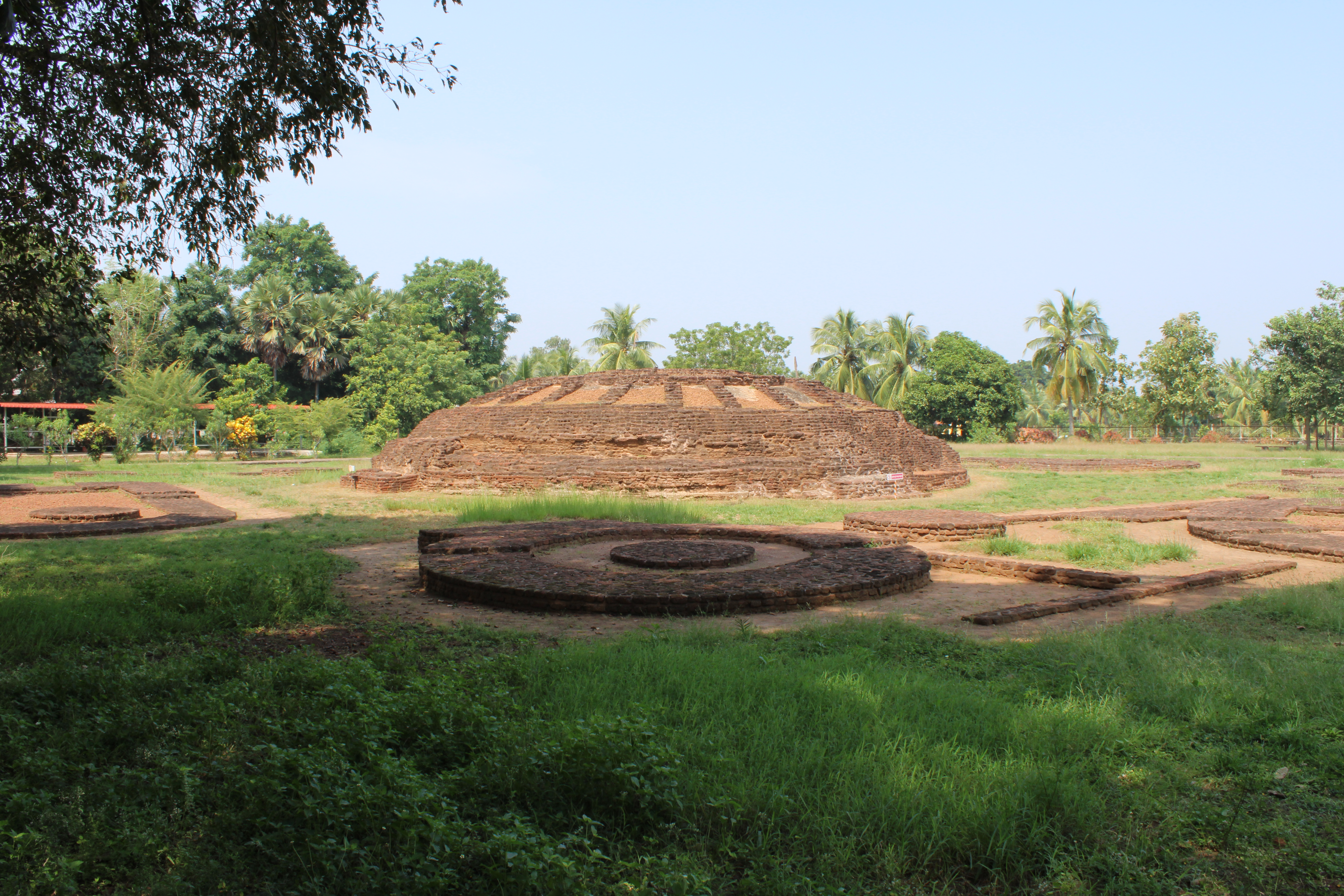 Mounds containing Buddhist remains such as stupas